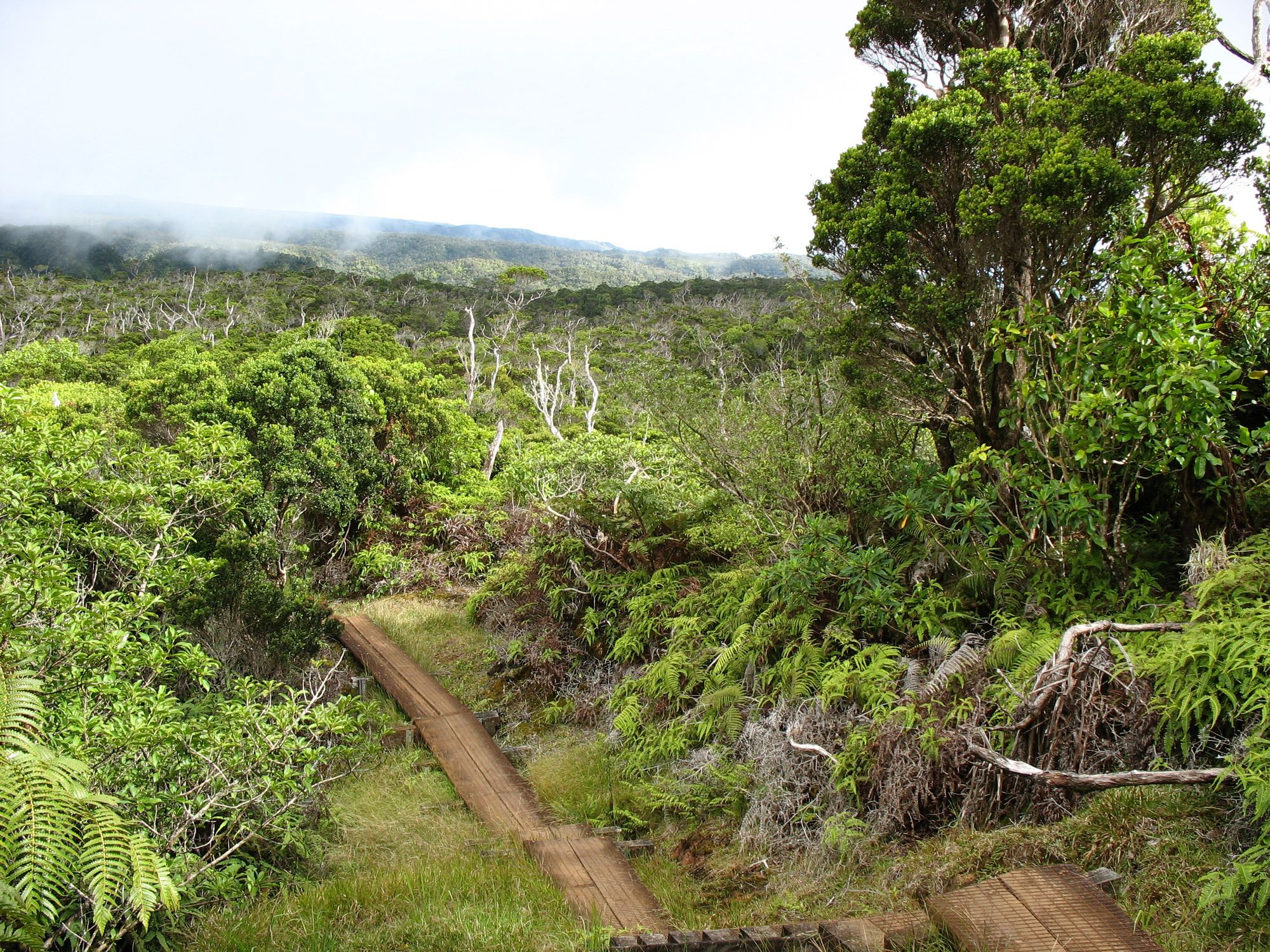 Alakai Wilderness Area. Photo Taken July, 2006.